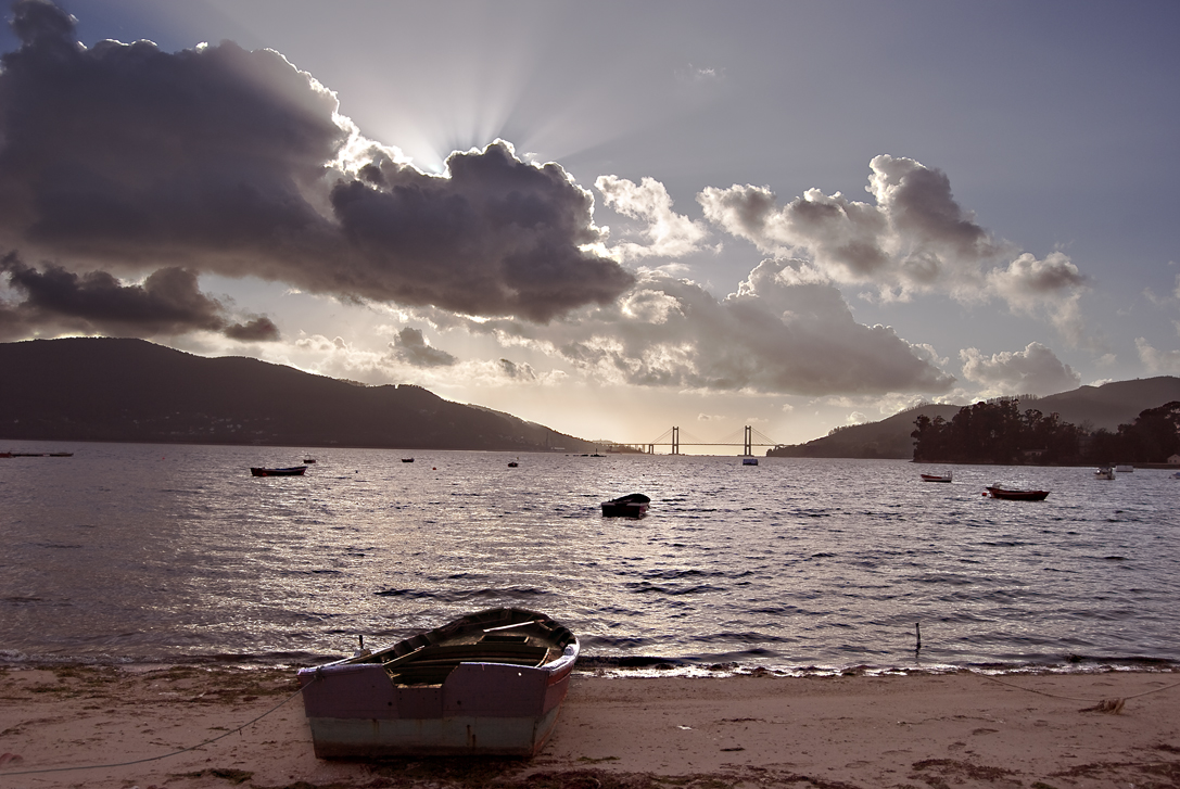 Praia de Cesantes, Redondela, Galiza Uploading using Sendto Flickr developed by Adamant Solutions